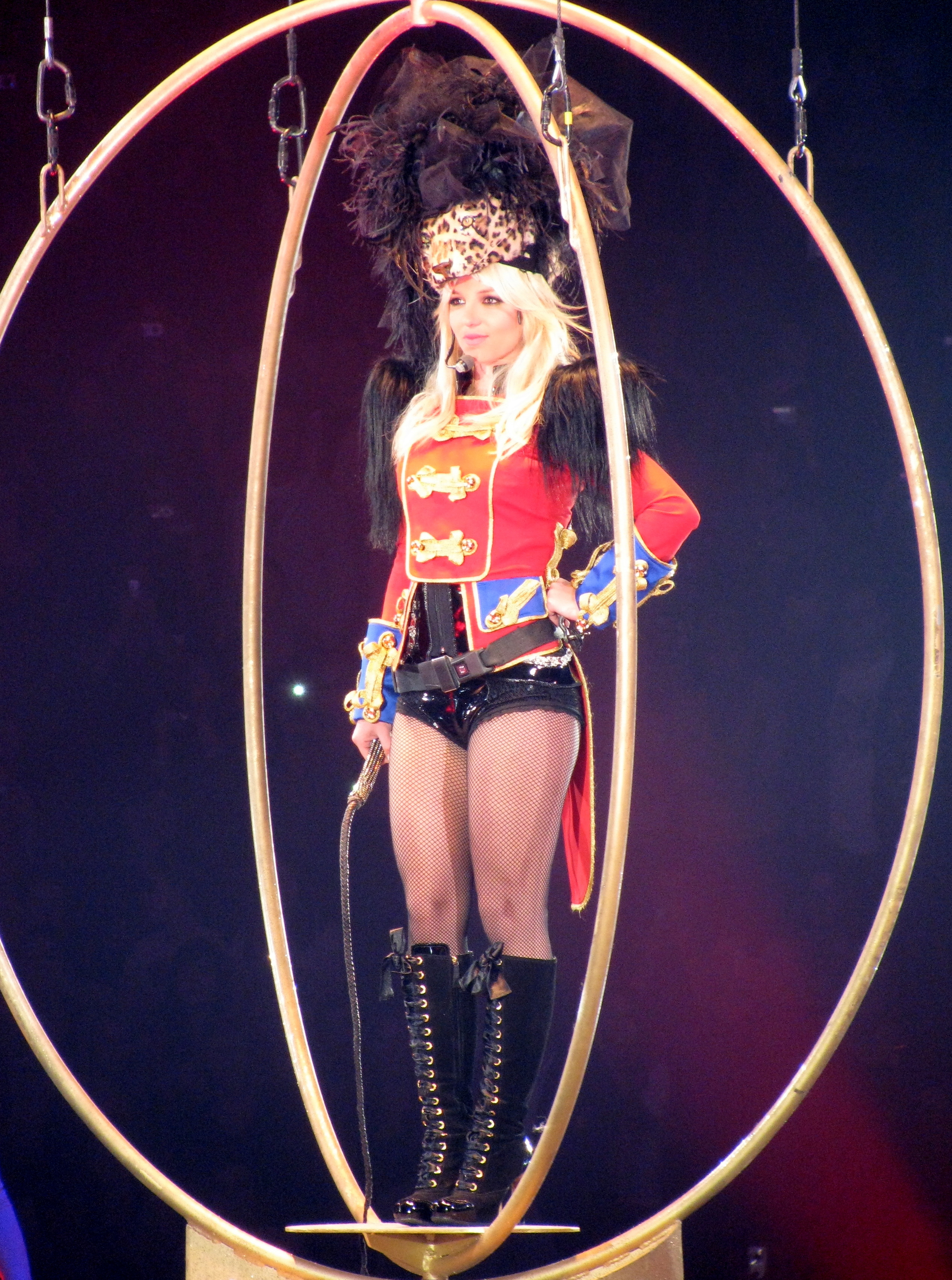 The Circus Starring: Britney Spears in Boston, Massachusetts